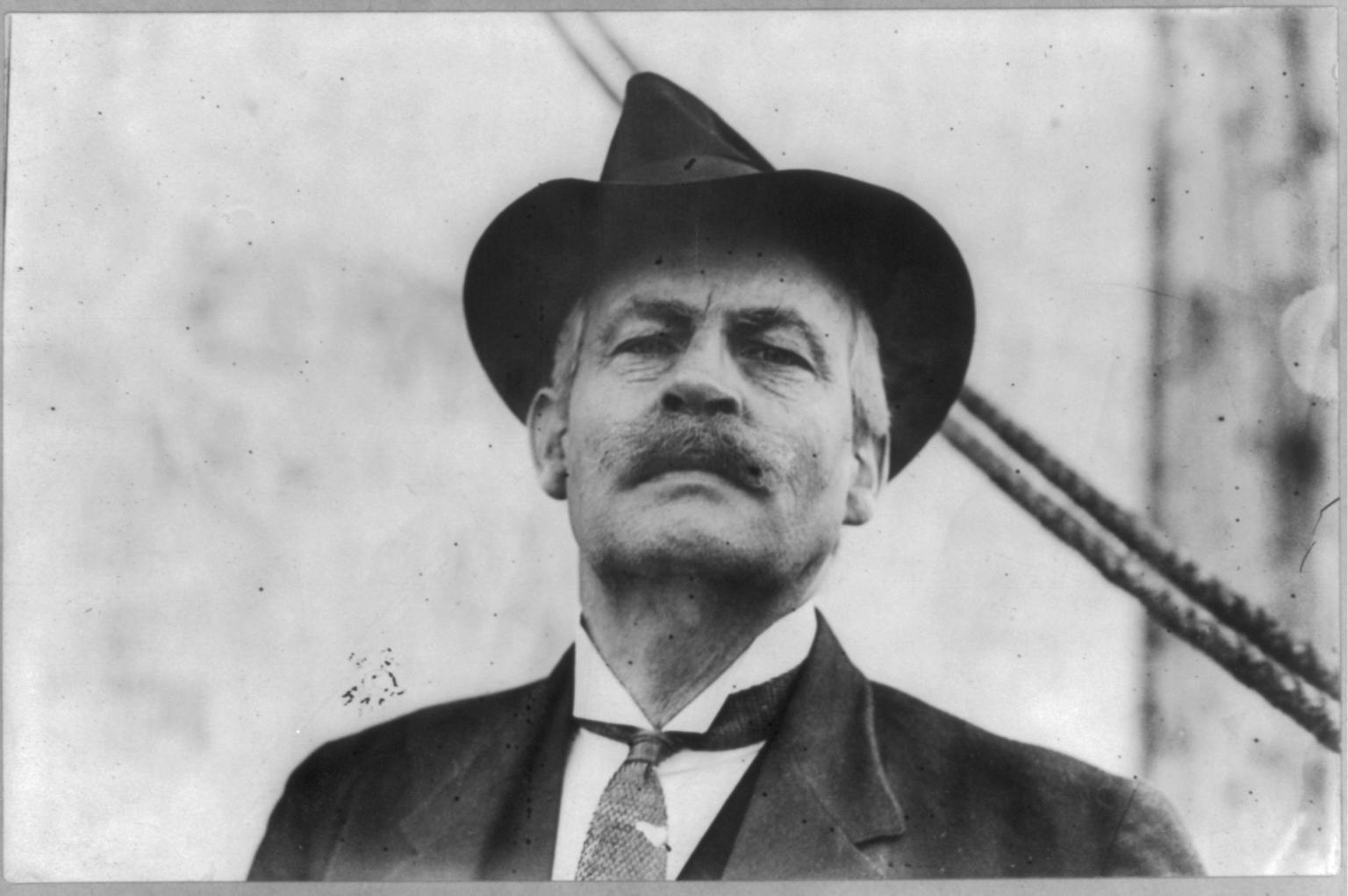 Walter Wellman, American journalist, explorer, and aëronaut.